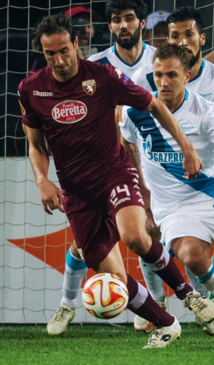 20.03.15. Италия, Турин, «Стадио Олимпико». Лига Европы УЕФА, 1/8 финала, «Торино» — «Зенит». Emiliano Moretti